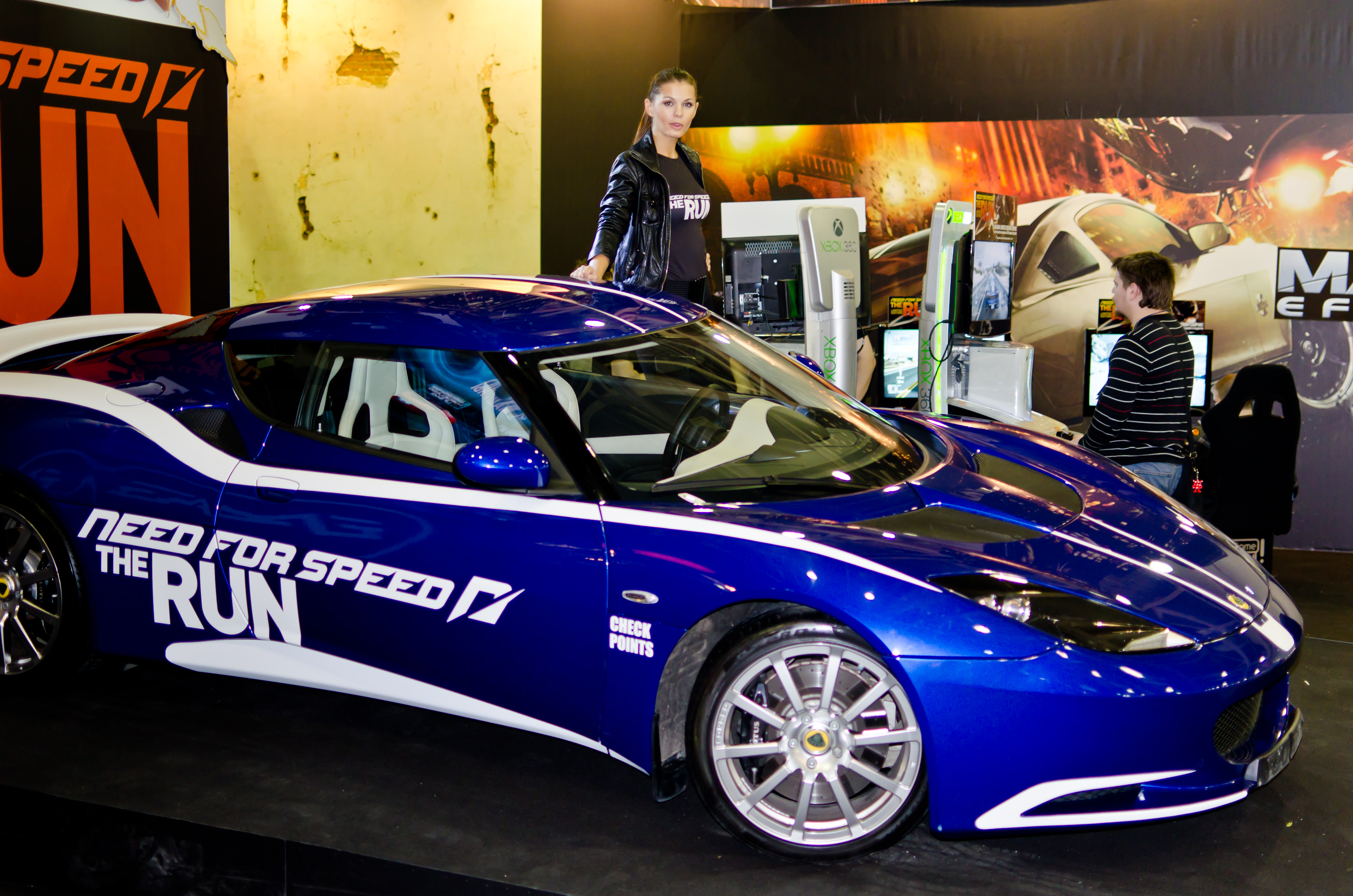 NFS: The Run girl at Igromir 2011